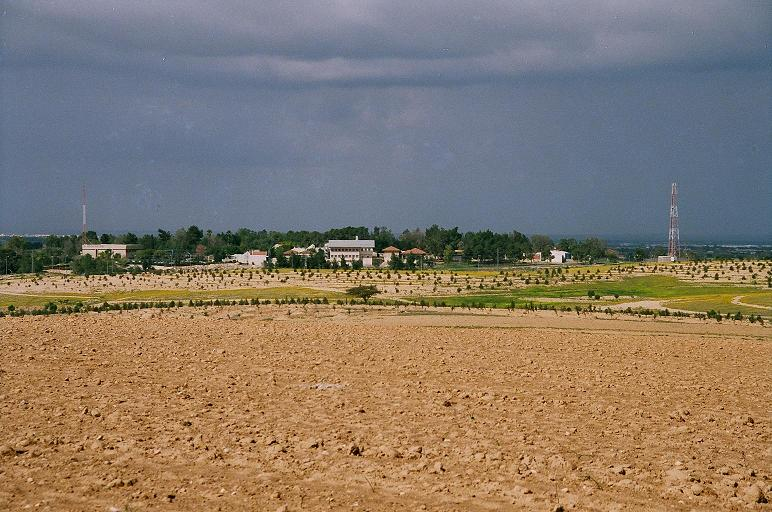 Eshel Hanassi High School, Israel